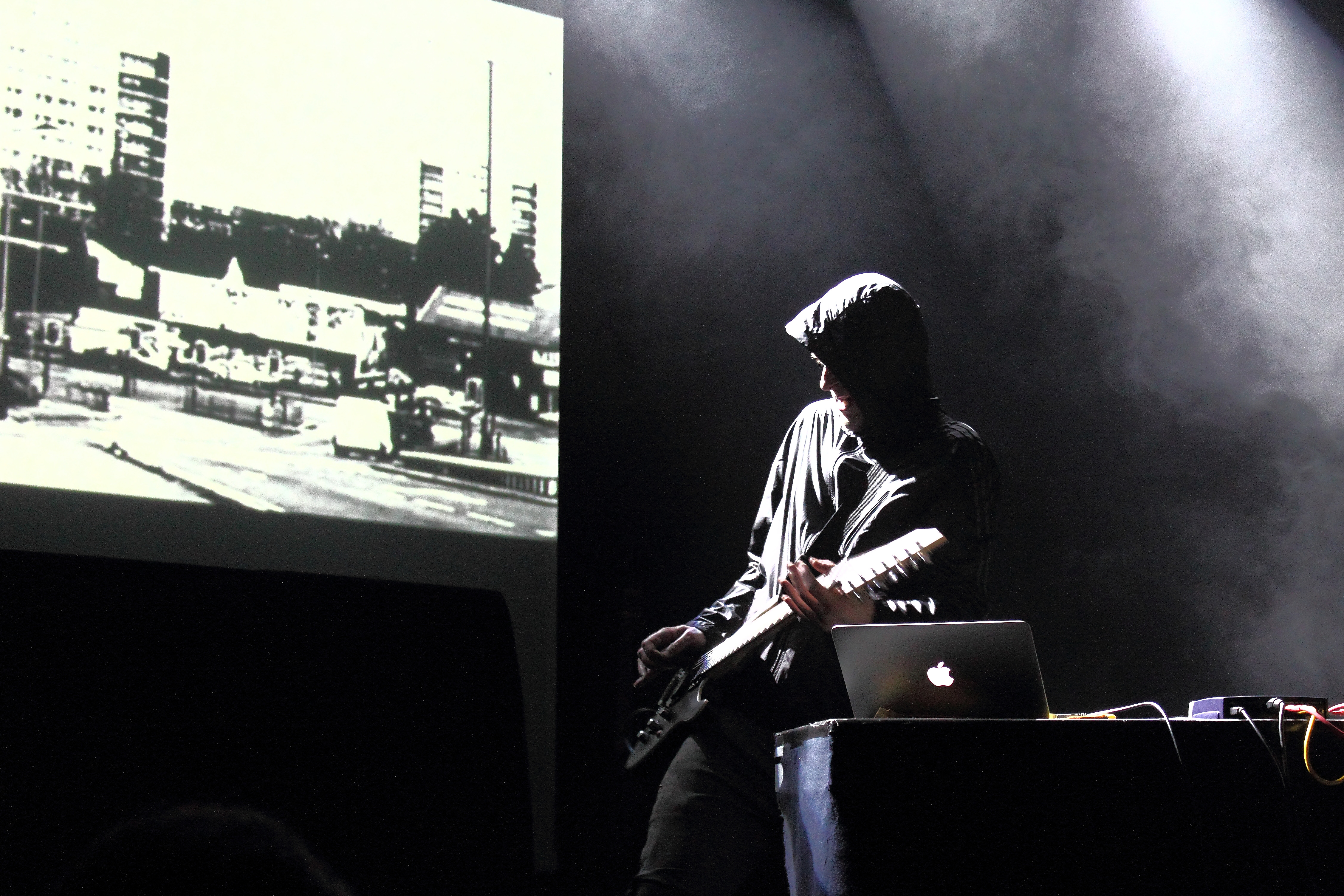 Justin Broadrick performing as JK Flesh in November 2013